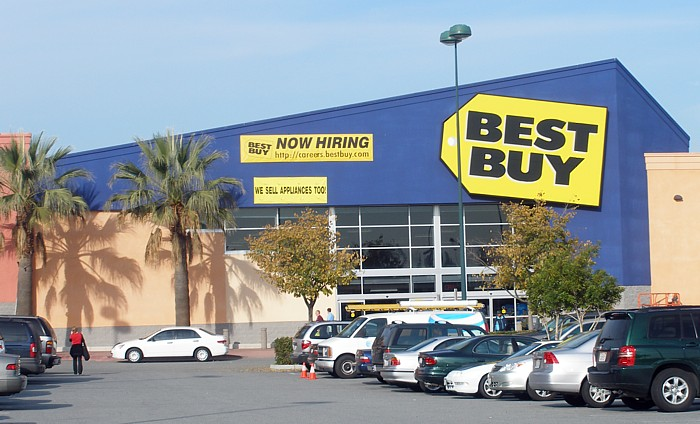 A typical Best Buy store at the Ravenswood 101 Shopping Center in East Palo Alto. Note the distinctive blue polygonal shape and the yellow logo. Taken on December 15, 2005 by user Coolcaesar.